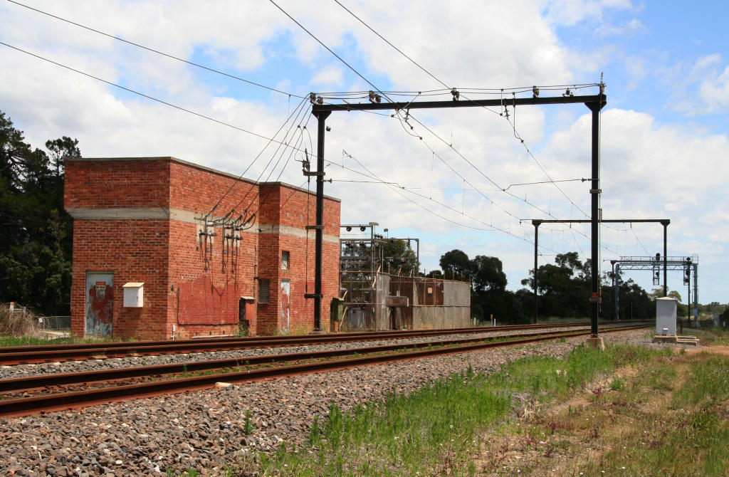 Preserved substation and overhead at Bunyip railway station, Victoria